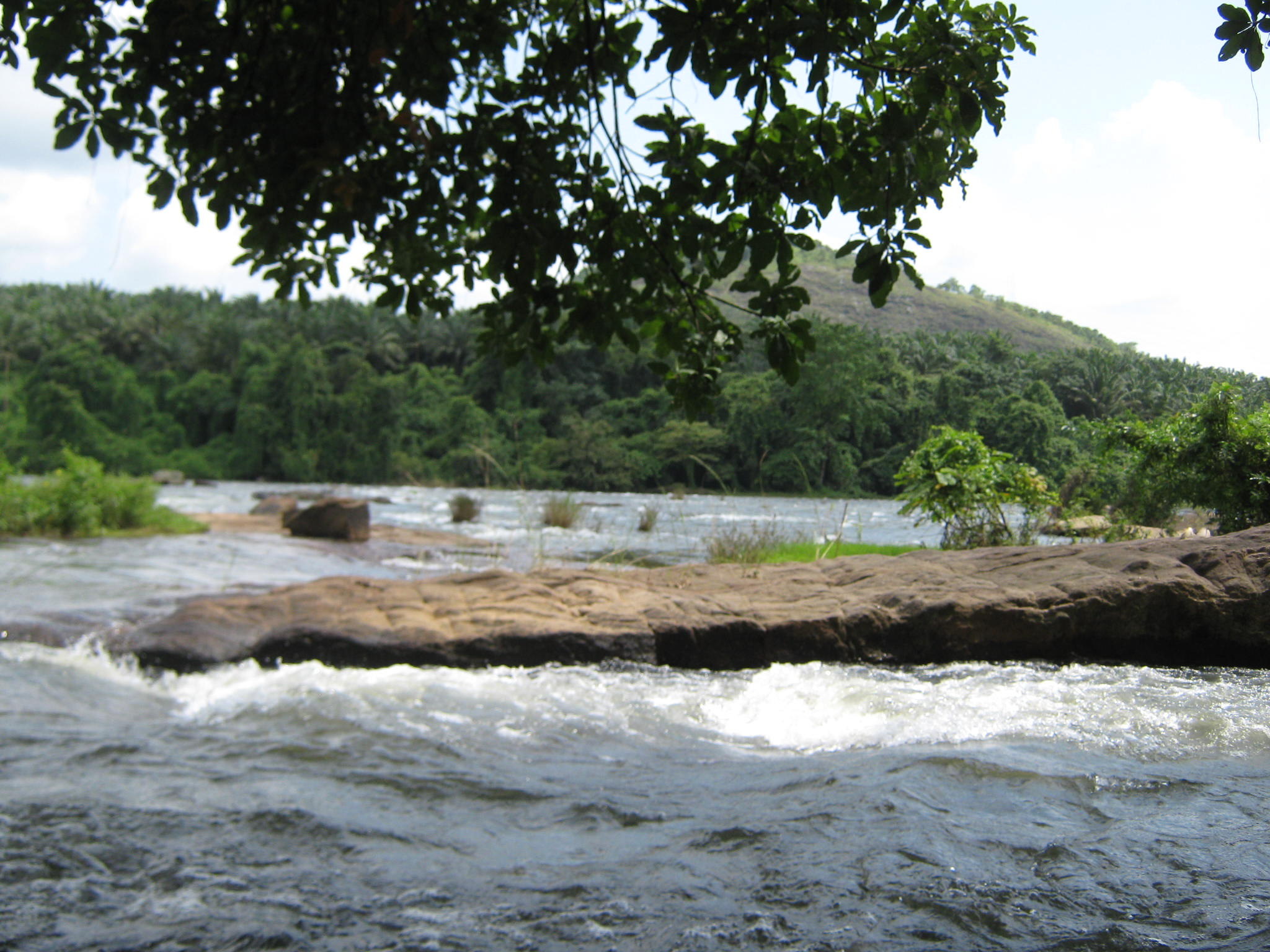 Thumburmuzhi Riparian Zone